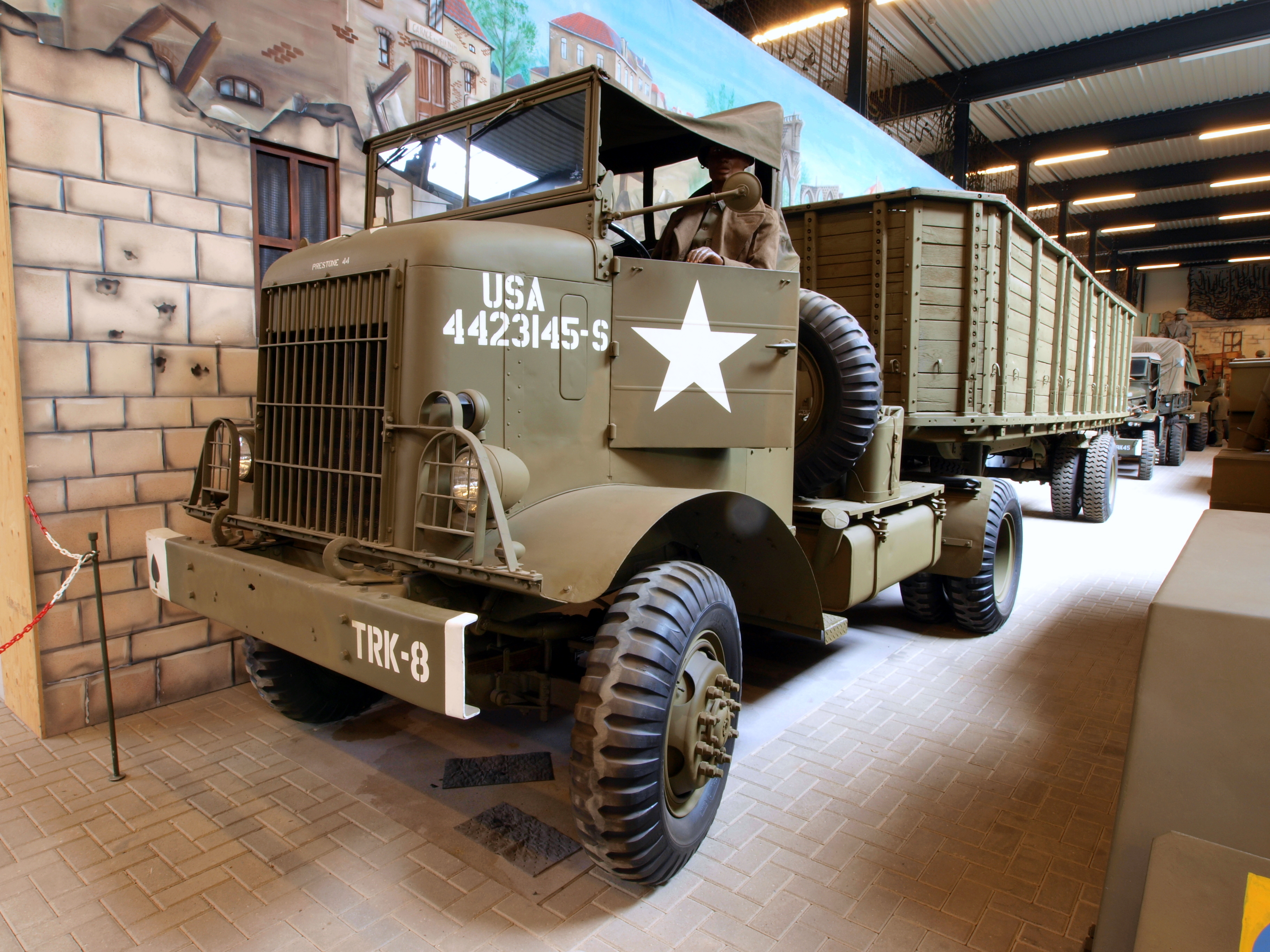 Photographed at the Marshallmuseum - Liberty Park - Oorlogsmuseum Overloon, The Netherlands.